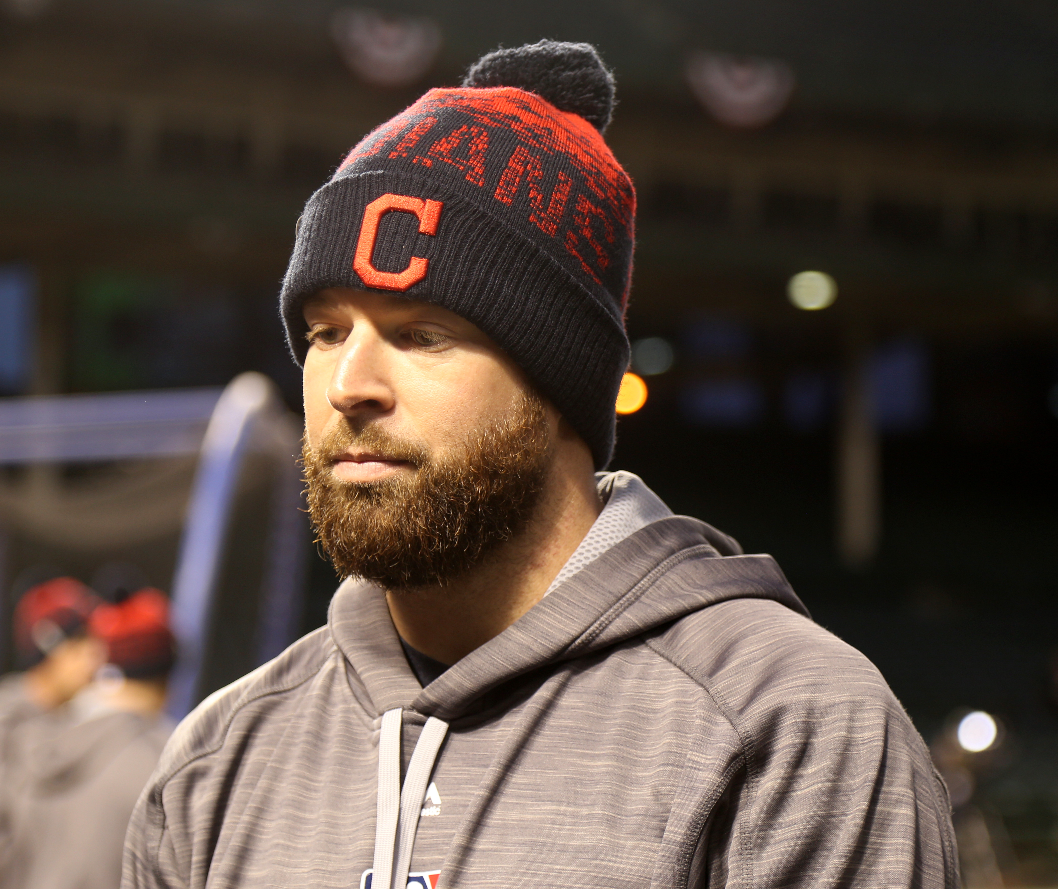 Indians pitcher Corey Kluber looks on during an interview at Wrigley Field.